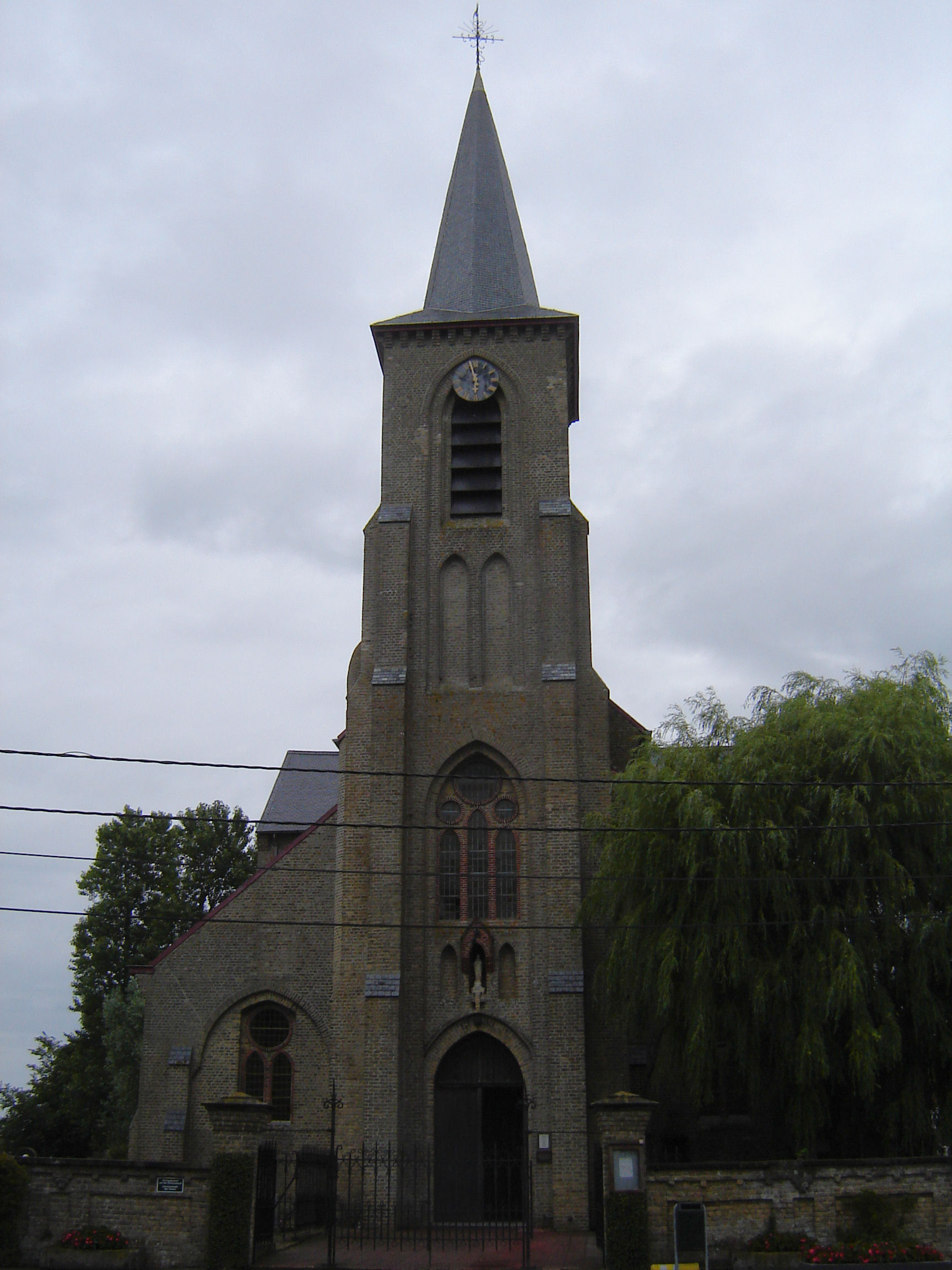 Church of the Beheading of Saint John in Eggewaartskapelle, Veurne, West Flanders, Belgium